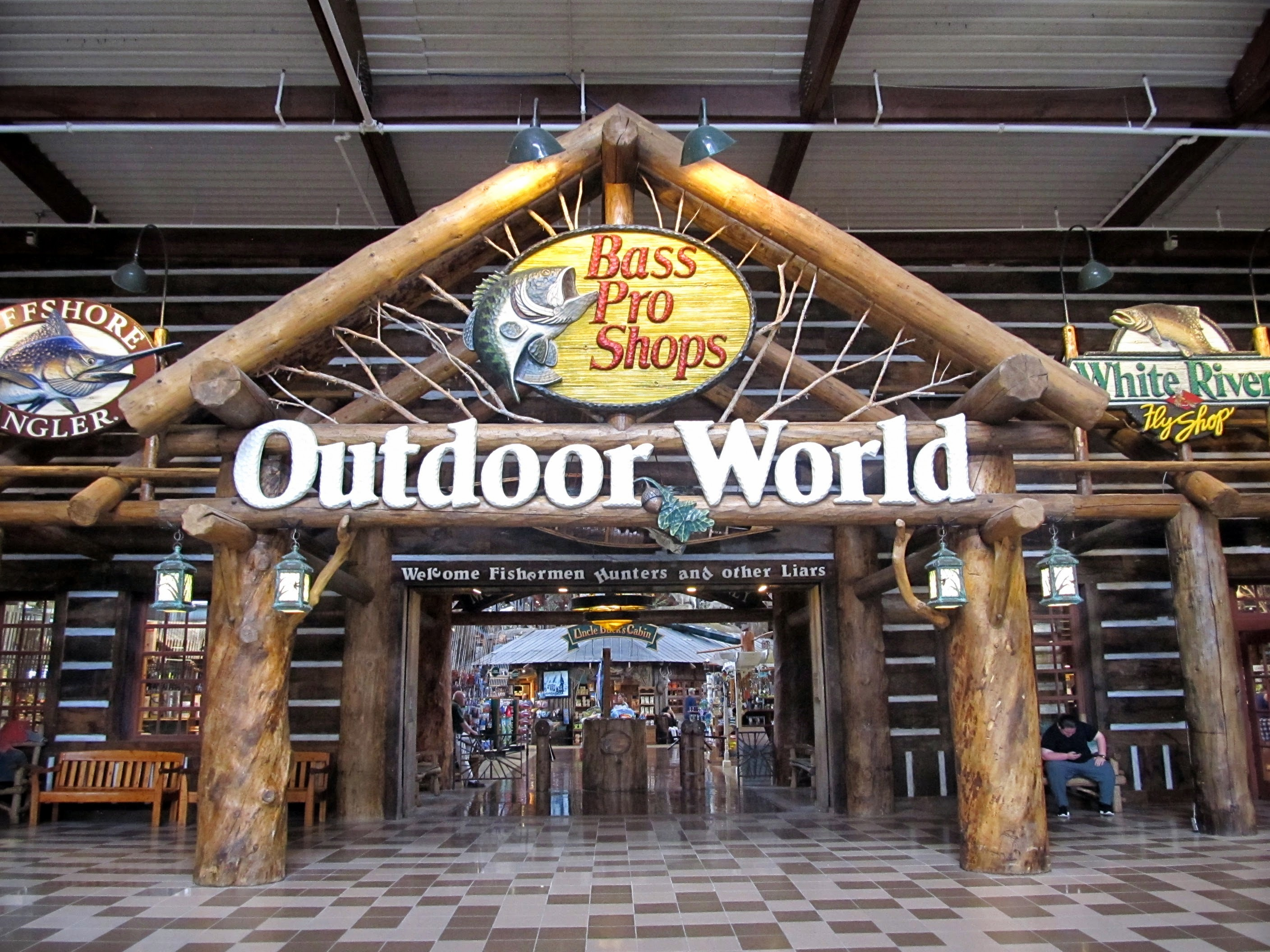 Shopping Mall in Orlando, Florida